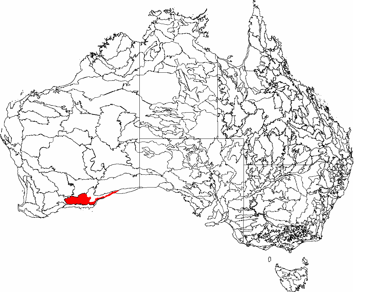 This is a map of the Interim Biogeographic Regionalisation of Australia (IBRA) subregions, with state boundaries overlaid. The Eastern Mallee region (MAL1) is shown in red.